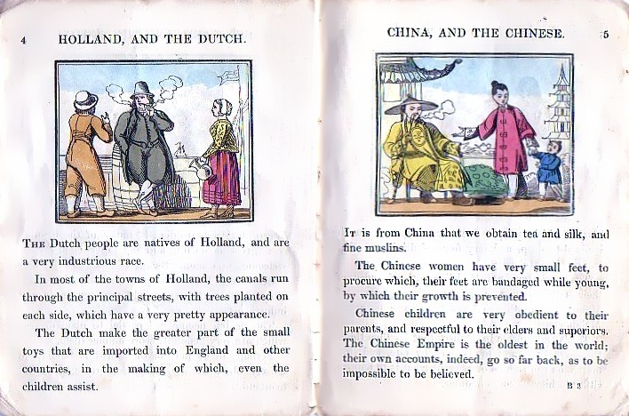 Ethnic stereotypes appear in what appears to be an early nineteenth century children's book, A Peep at the World. Original found here, in a library catalogue of a book exhibit. Deskewed and cleaned up.